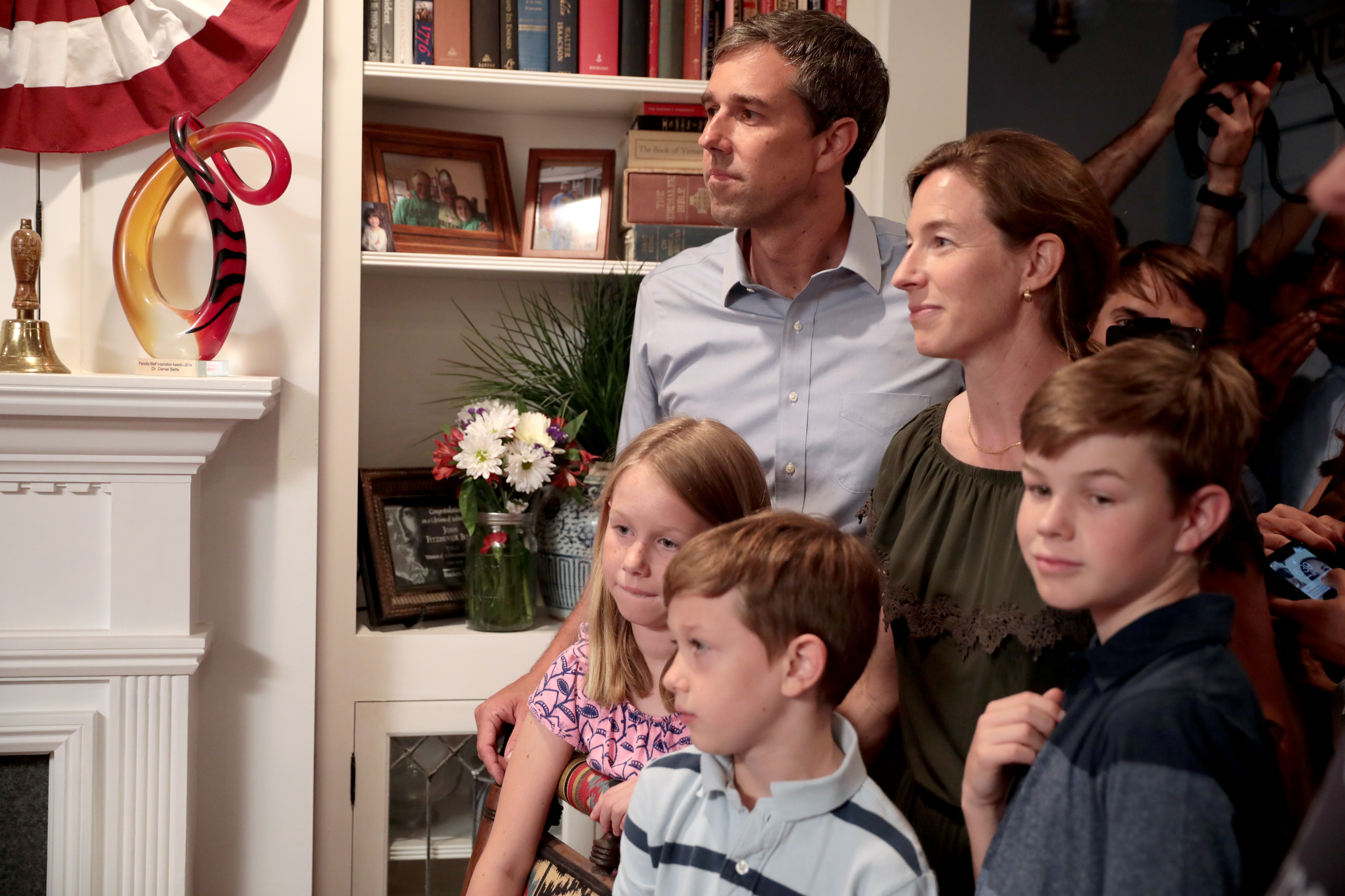 Former U.S. Congressman Beto O'Rourke, along with wife Amy and children Ulysses, Molly and Henry, speaking with supporters at a house party hosted by Joan Bolin-Betts in Ames, Iowa.